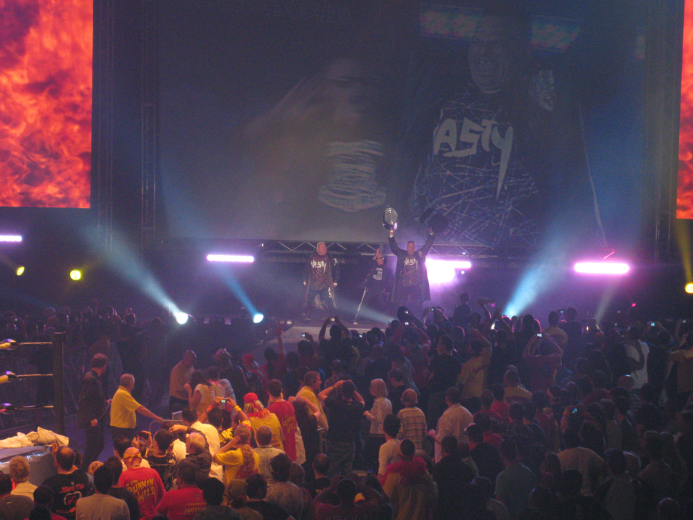 Hulkamania Tour @ Rod Laver Arena. Melbounre, AUS.